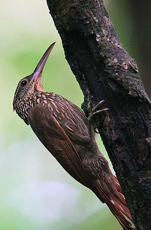 Image taken at Heliconias near Bijagua, Costa Rica.